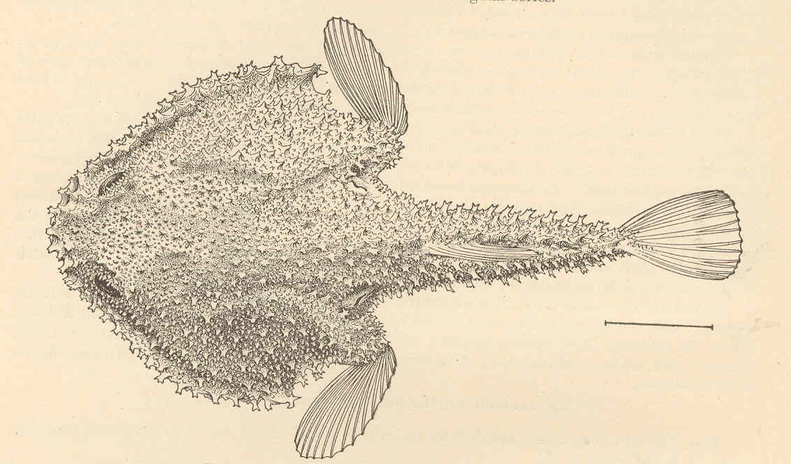 Dibranchus erythrinus Gilbert, new species. Type Subject: Dibranchus Tag: Fish